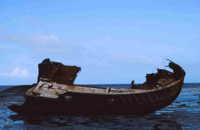 Shipwreck at Black Nab, near Saltwick Bay In this picture only the Stern section has survived, it is the wreck of the Admiral Von Tromp, which foundered in October 1976 for details of the original ship to see the wreck a few years later or for it's current state